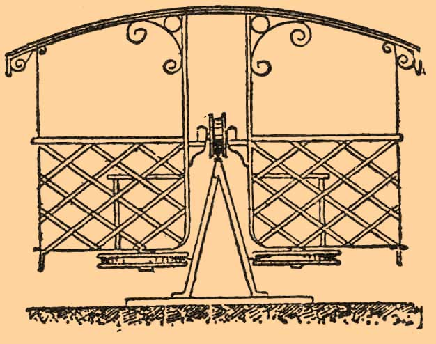 Illustration from Brockhaus and Efron Encyclopedic Dictionary (1890—1907)